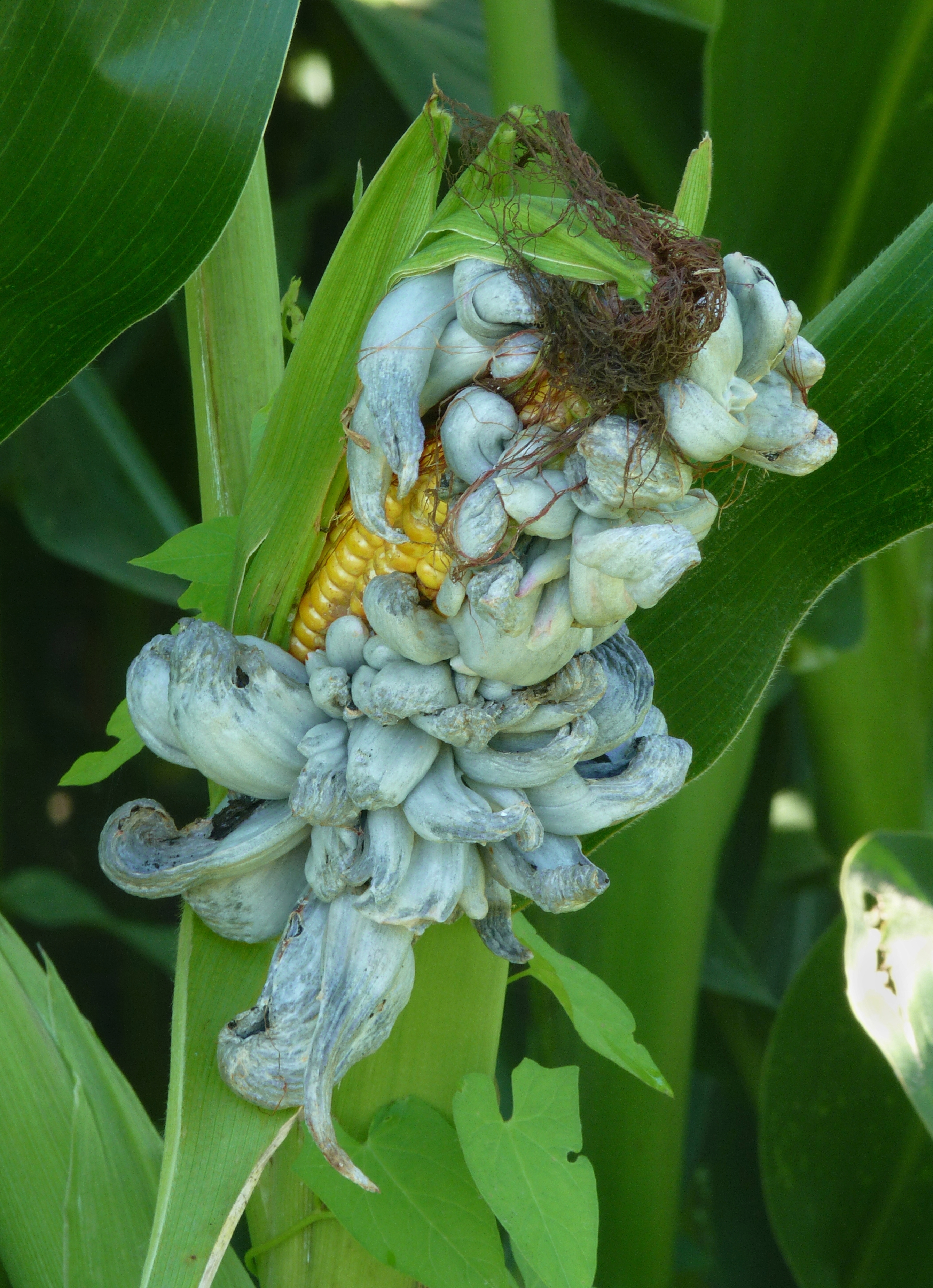 Corn smut (Ustilago maydis), on a maize plant.